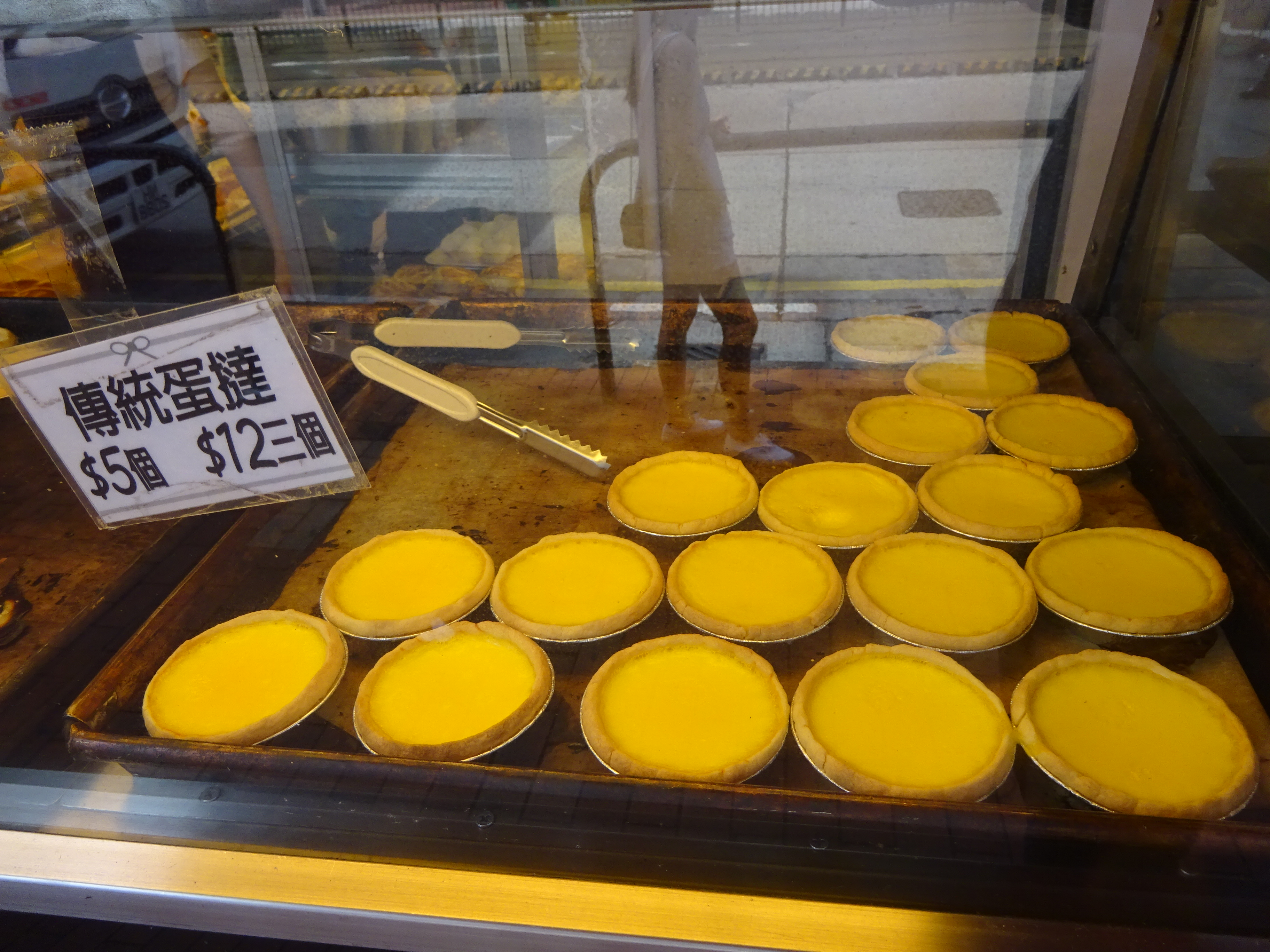 HK YL 元朗 Yuen Long 晞斯餅店 Heysze Cake Shop cheese cakes 誠信商業大廈 Sing Shun Building 青山公路 元朗段 41C Castle Peak Road in July 2016